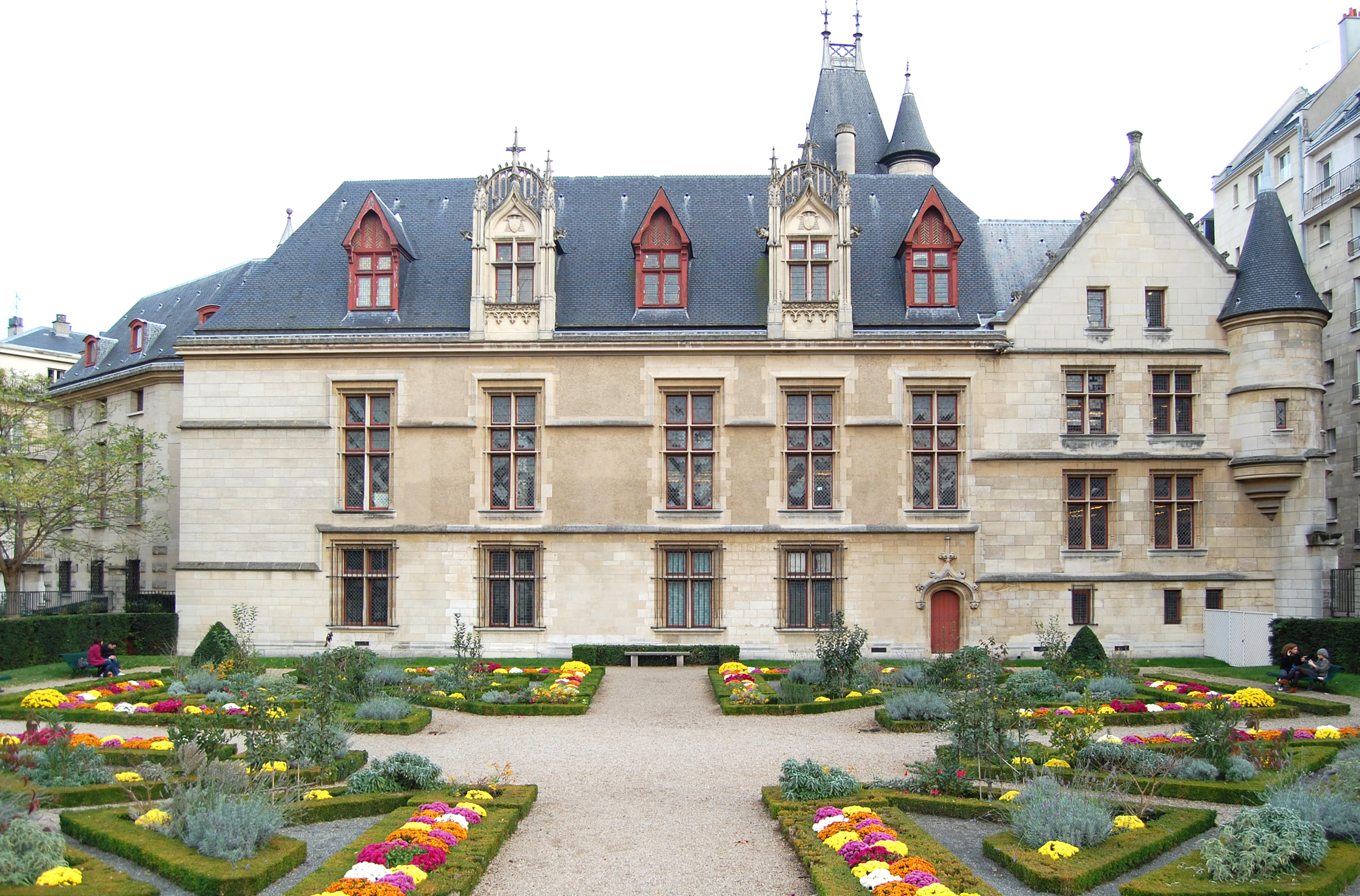 Hotel de Sens, Marais, Paris, France